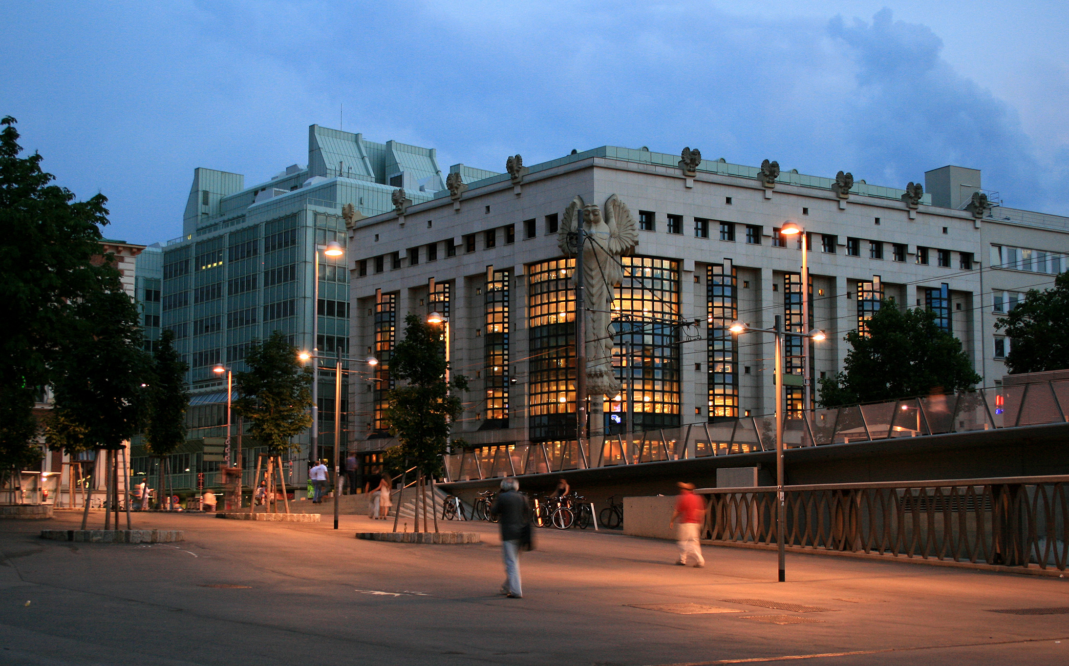 Library of the Vienna University of Technology (Austria).